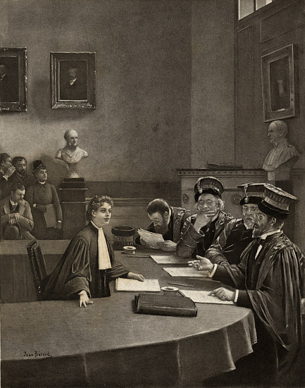 Elizabeth Garrett Anderson thesislabel QS:Len,"Elizabeth Garrett Anderson thesis"label QS:Lfr,"Thèse de Elizabeth Garrett Anderson par Jean Béraud"